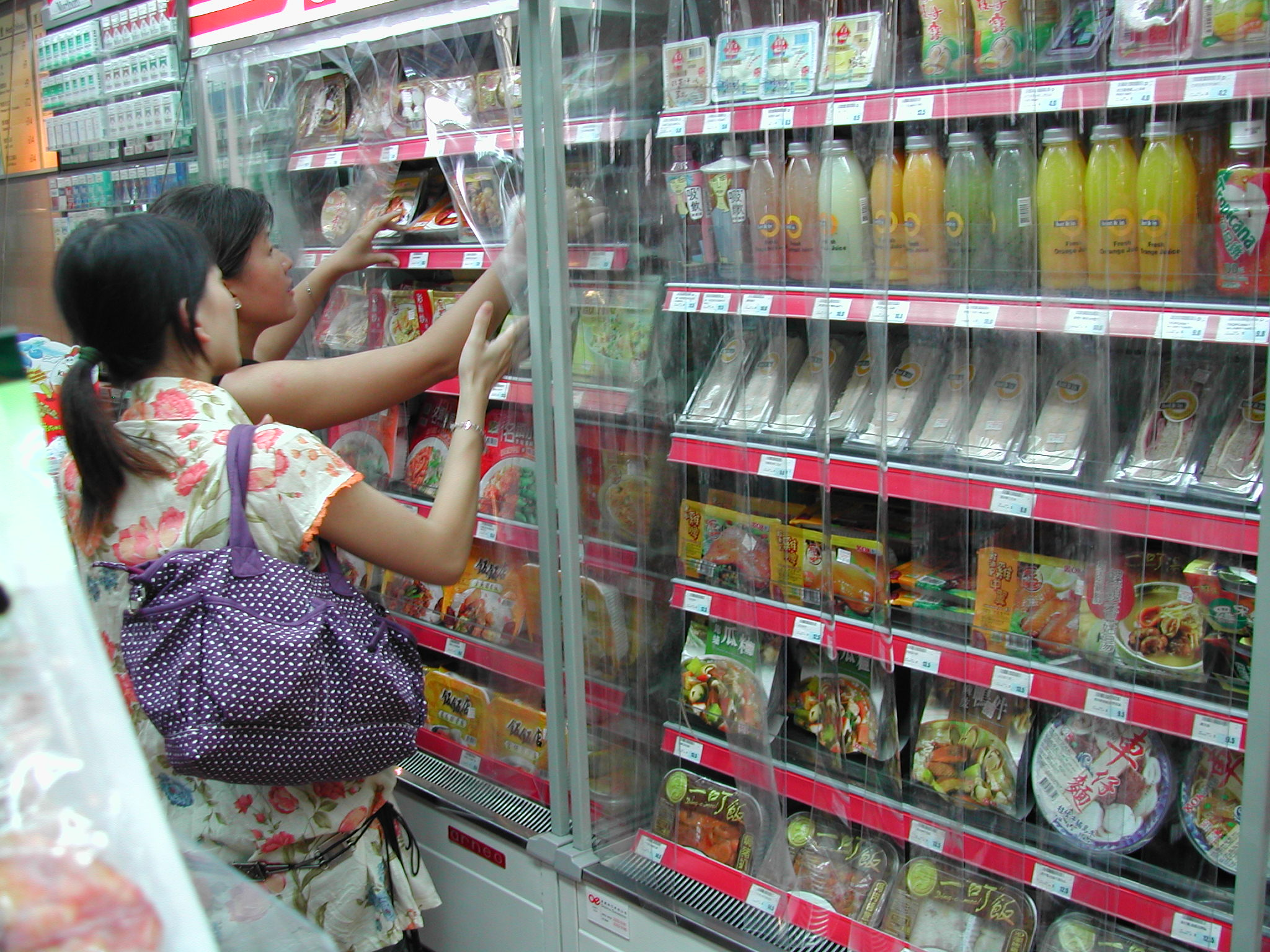 Two women picking microwave-cooked dim sum from the freezer in Circle K, Hong Kong.